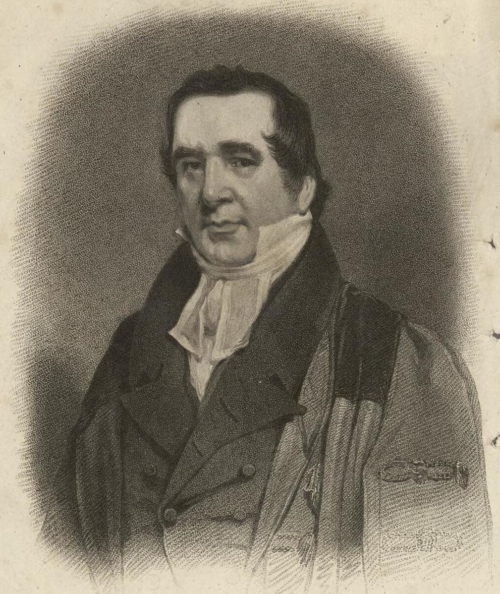 A portrait from the Welsh Portrait Collection at the National Library of Wales. Depicted person: Henry Belfrage – British minister